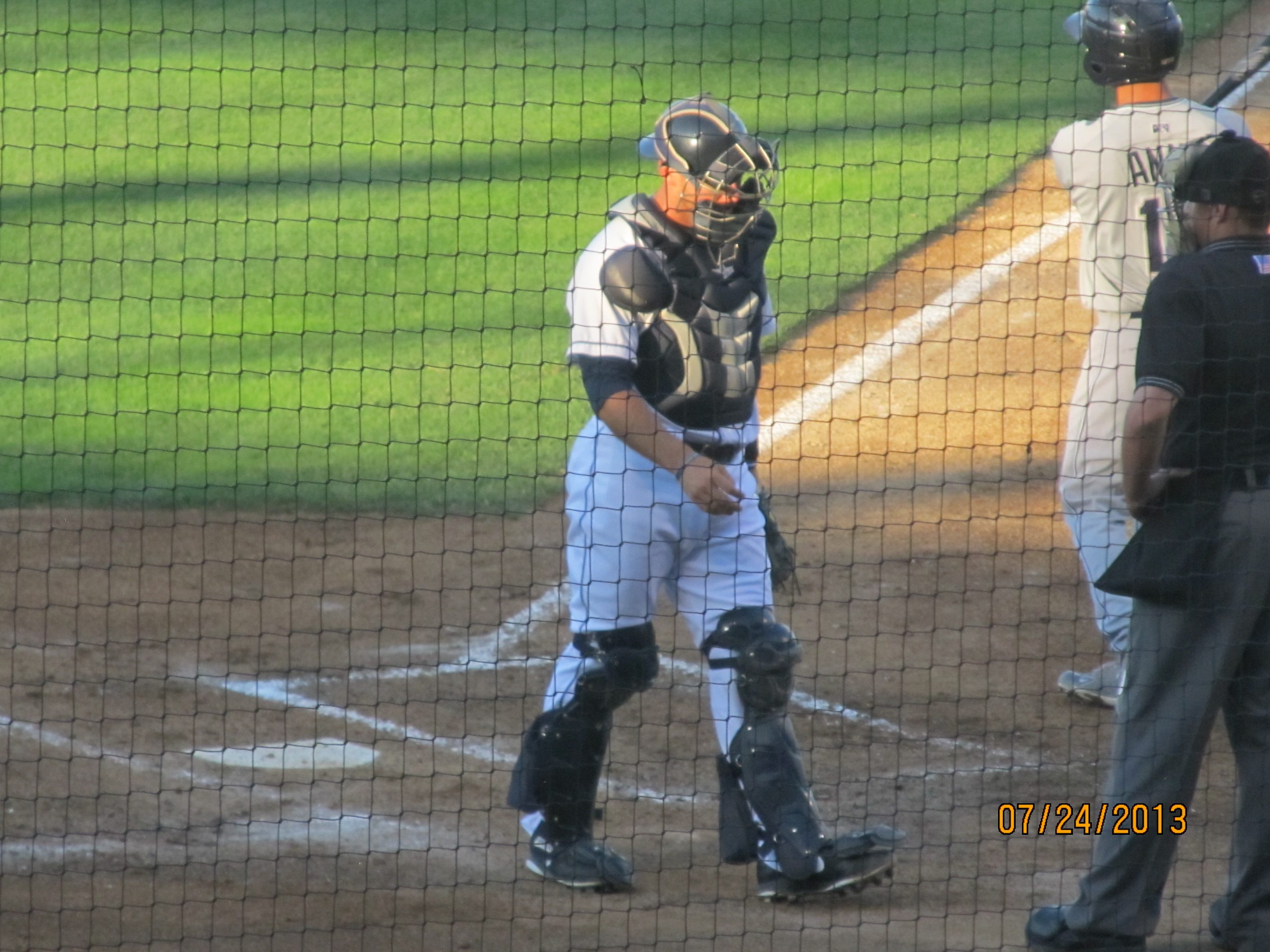 Bantz playing for the Tacoma Rainiers